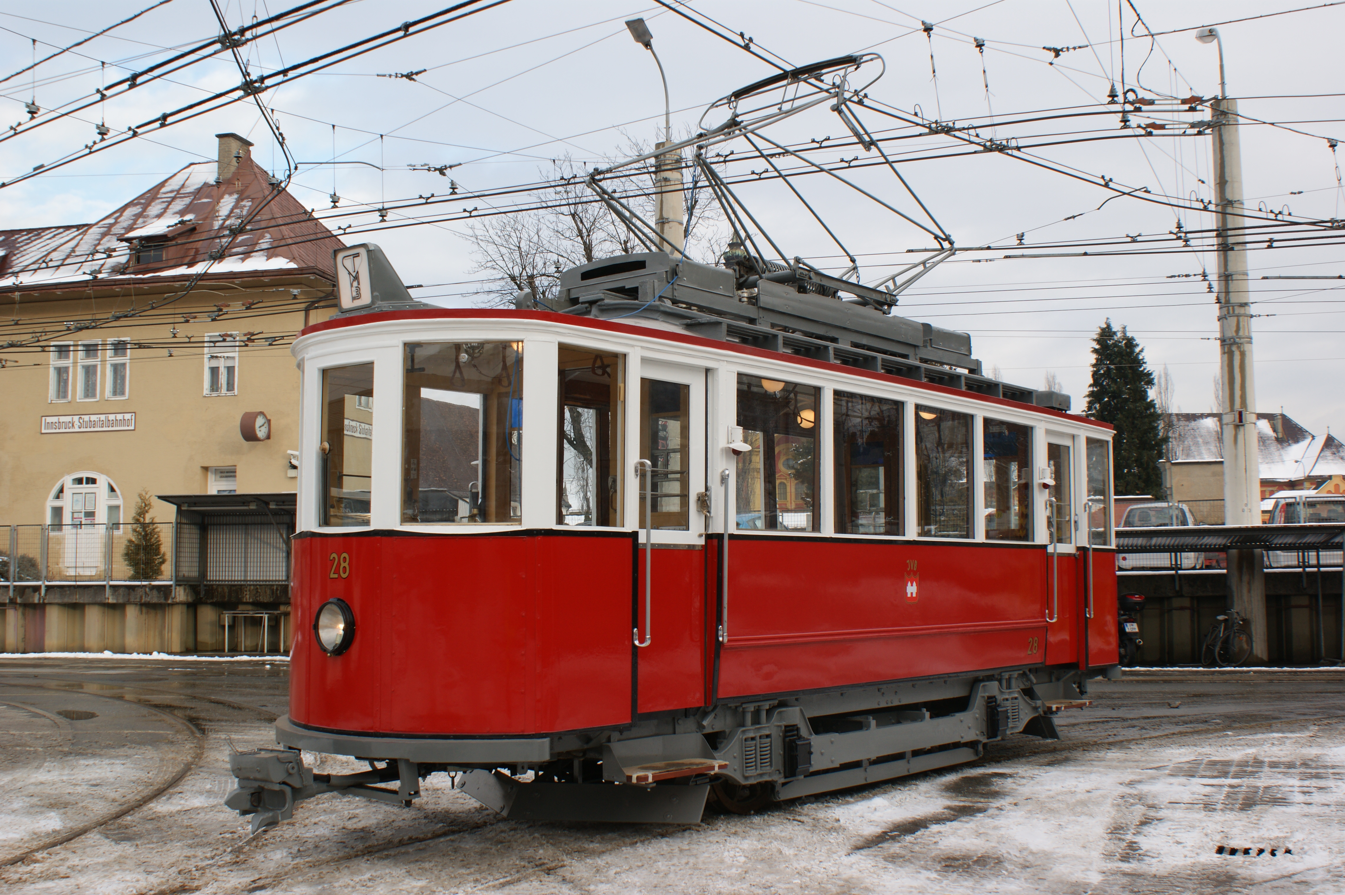 Ex-Basler Motorcar 28 restored by the Tiroler Museumsbahnen